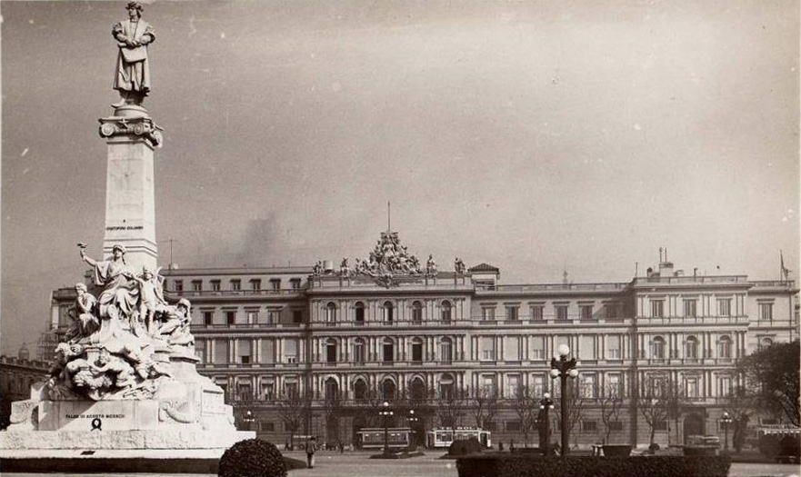 Post card where the statue of sailor Christopher Columbus (on the front) and the "Plaza Colón" can be appreciated. The monument was a gift from the Italian community of Argentina in commemoration of the 100th anniversary of the May Revolution. The statue was sculpted in Carrara marble by Italian sculptor Arnaldo Zocchi (1862–1940) and inaugurated in 1921.